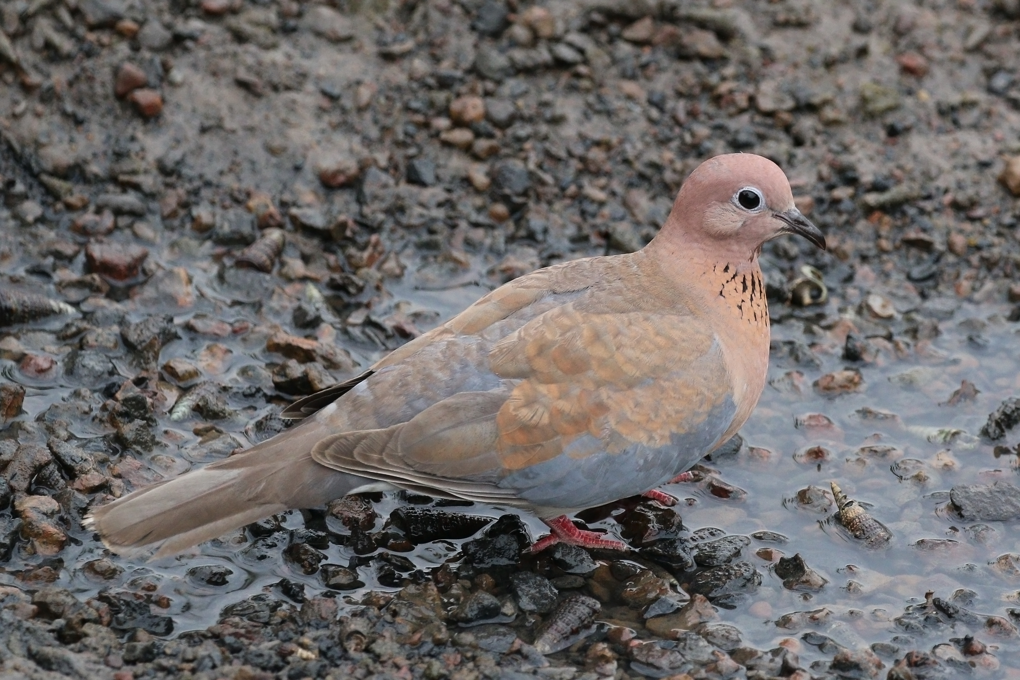 Laughing dove (Spilopelia senegalensis senegalensis), The Gambia